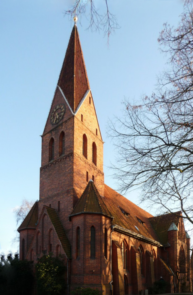 Church in Bremen-Woltmershausen, Germany